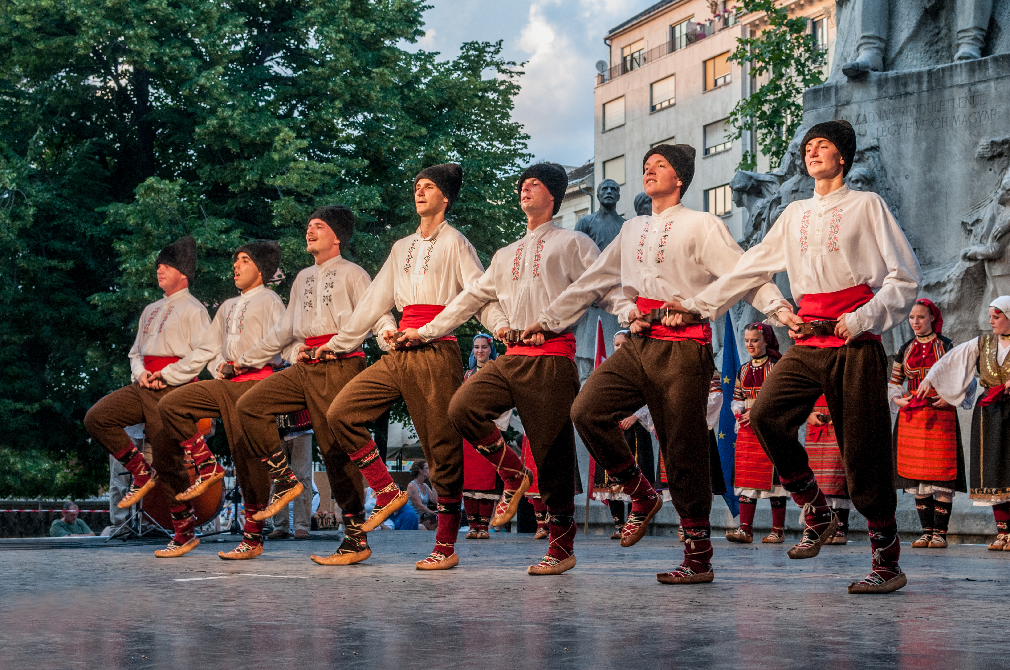 Budapest, XVIII. Danube carnival - The Southern Slavic Dance Ensemble (Tököl) and the Kóló Band